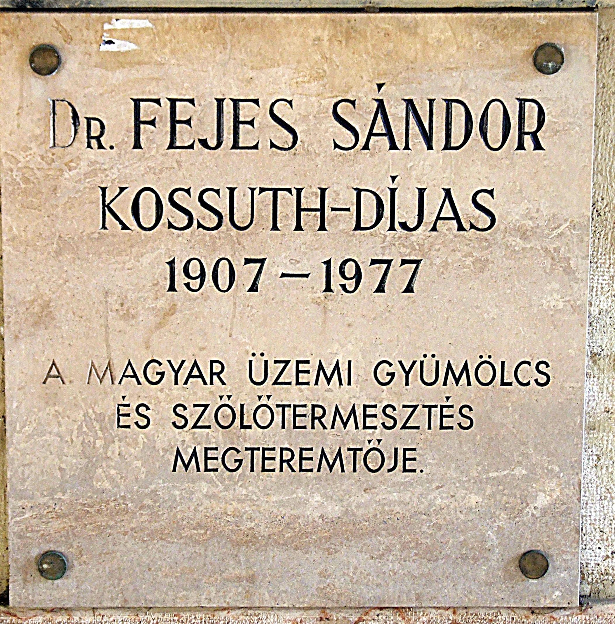 Sándor Fejes commemorative plaque in Budapest District V, Kossuth Lajos Square No 11